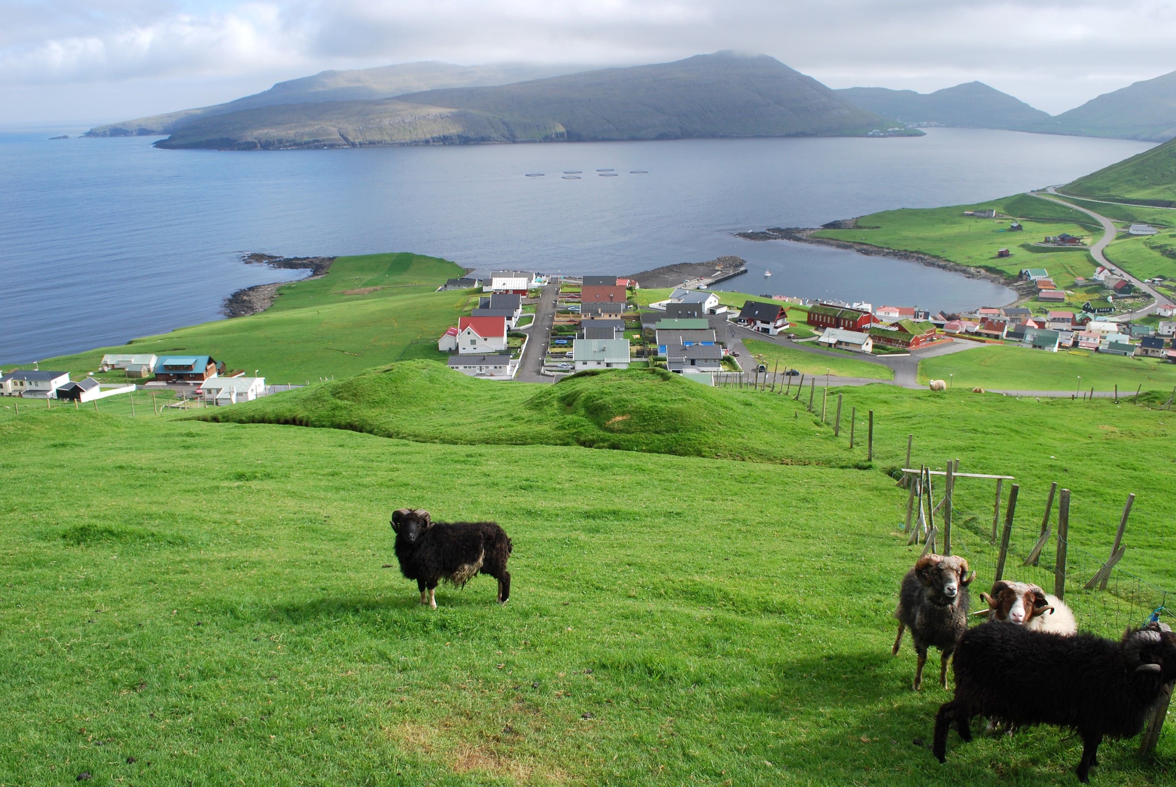 Porkeri,Faroe Islands. View towards south. The islet Baglhólmur to the left, near the village Víkarbyrgi. Lopra and Akrar are on the southern side of the fjord, in the bay to the right.